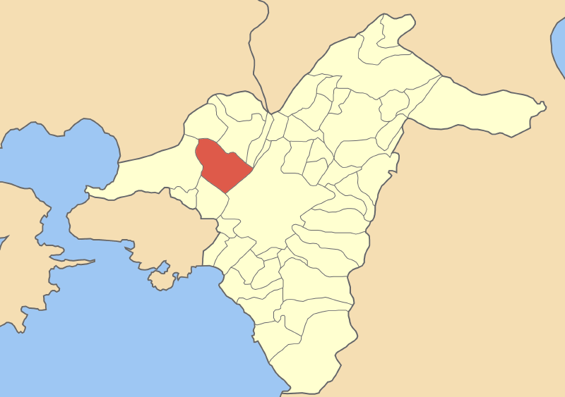 Locator map of Peristeri municipality (Δήμος Περιστερίου) in Athina Nomarchia (Νομαρχία Αθηνών) in Greece.